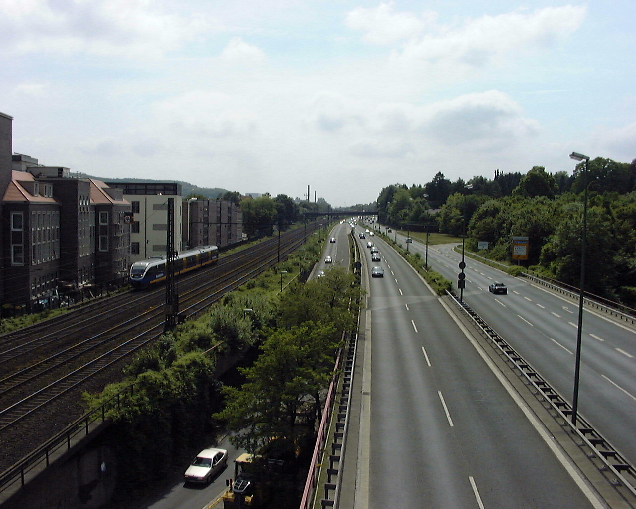 Bielefeld, Germany: Ostwestfalendamm at the drive-up “Johannistal”